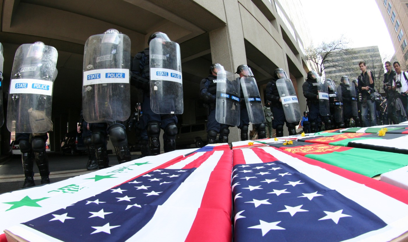 Mock coffins are placed near office buildings of businesses which manufacture weapons systems for the Pentagon. Protesters had carried the symbolic coffins from near the Lincoln Memorial, to the Pentagon grounds, and then to Arlington, Virginia which is where many war-related industries maintain offices.